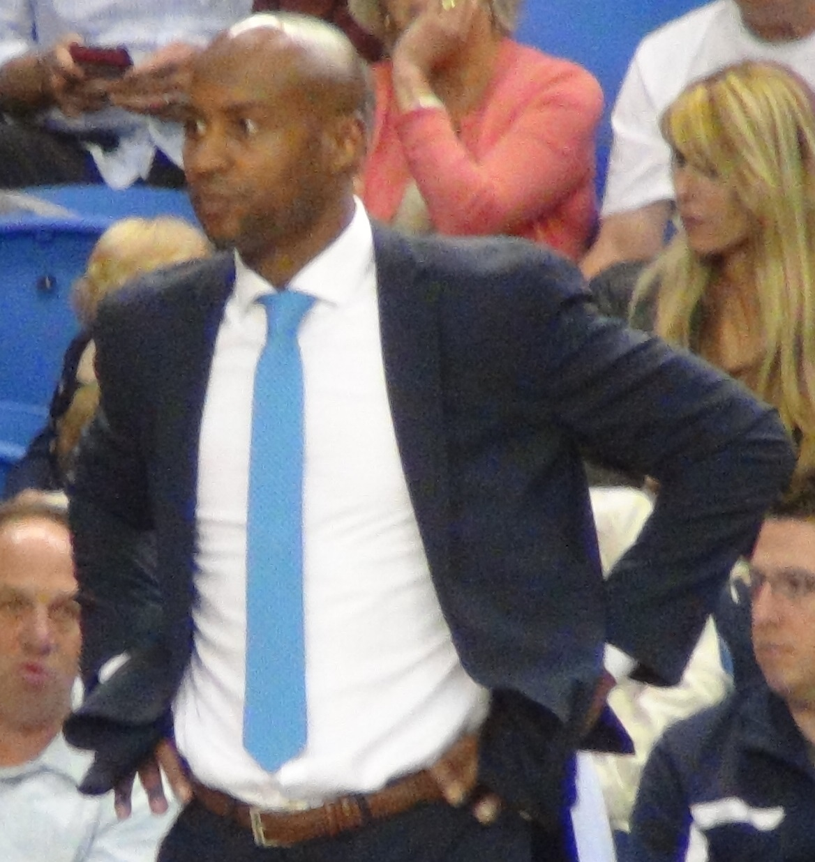 University of San Diego men's basketball head coach Lamont Smith during a game at San Jose State on November 12, 2017.